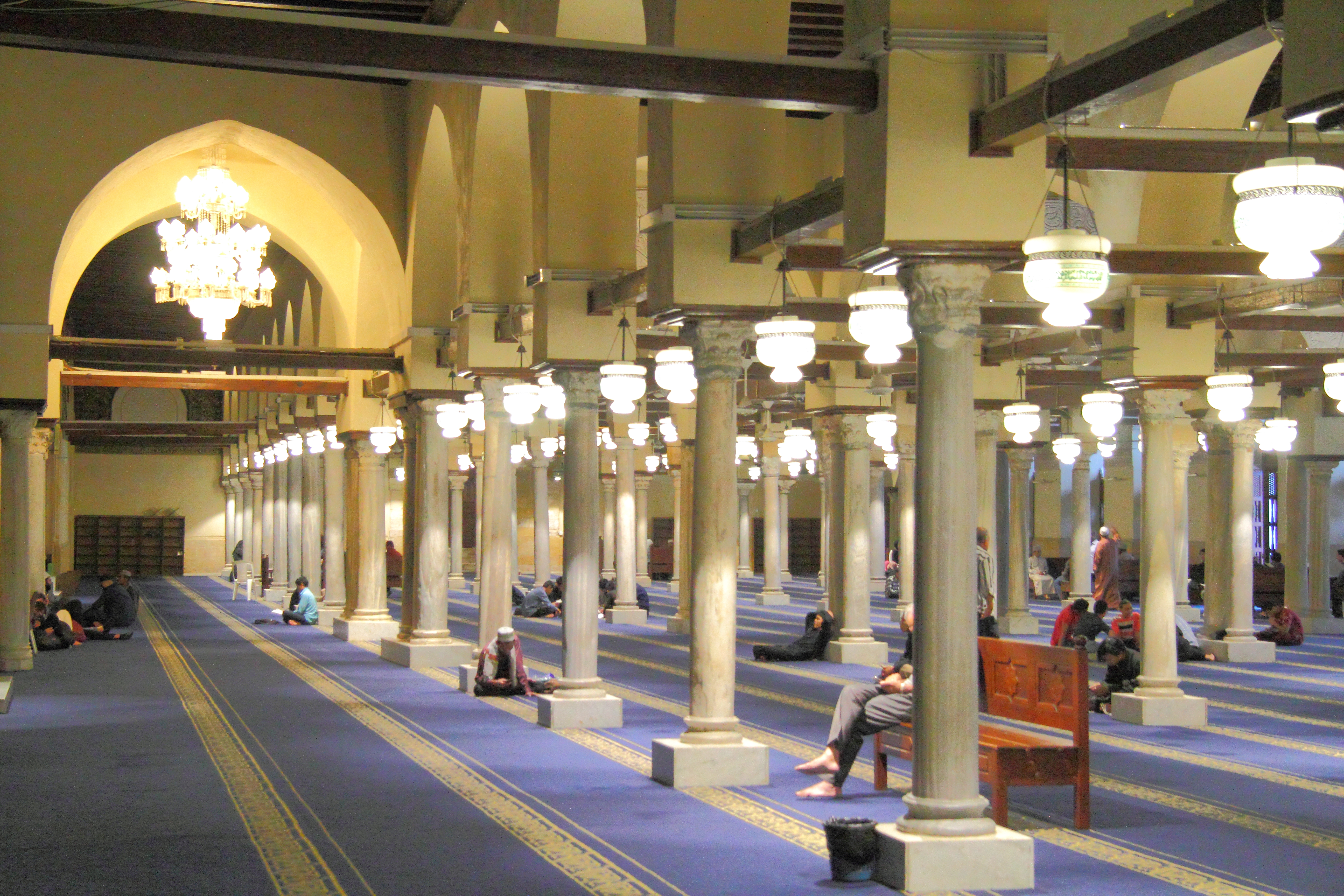 Cairo, Egypt: Al-Azhar Mosque